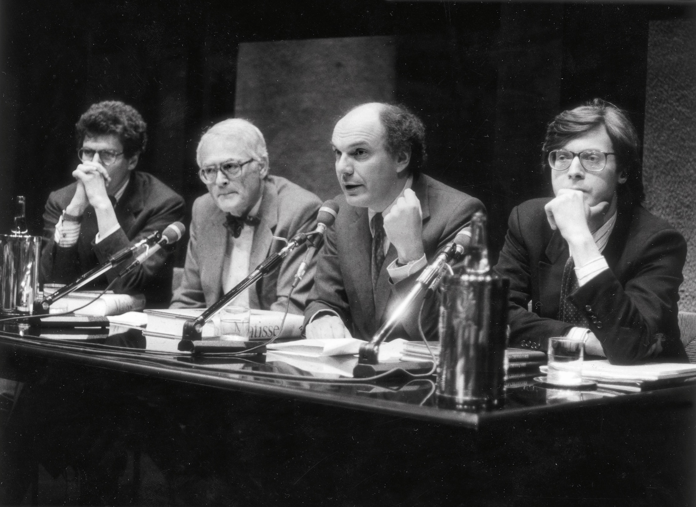 Italian publisher Leonardo Mondadori, with Vittorio Sgarbi, Alain Elkann and Pierre Schneider.